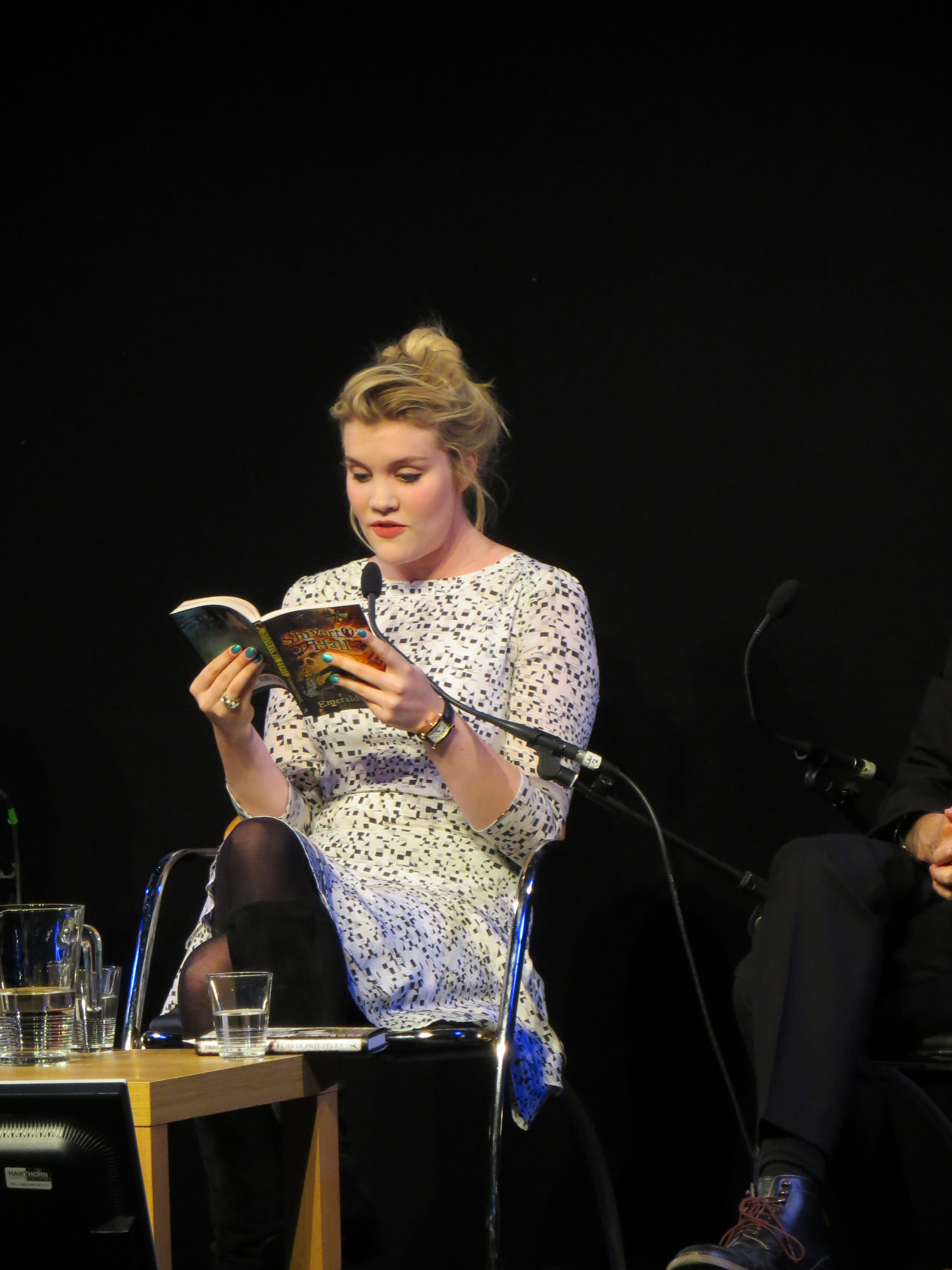 Picture of Emerald Fennell reading from one of her books on may 25th 2013